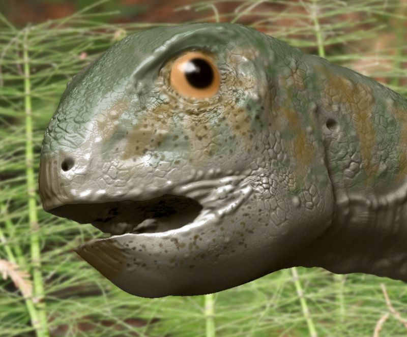 Gobiceratops minutus, a ceratopsian from the Late Cretaceous of Mongolia. Digital.